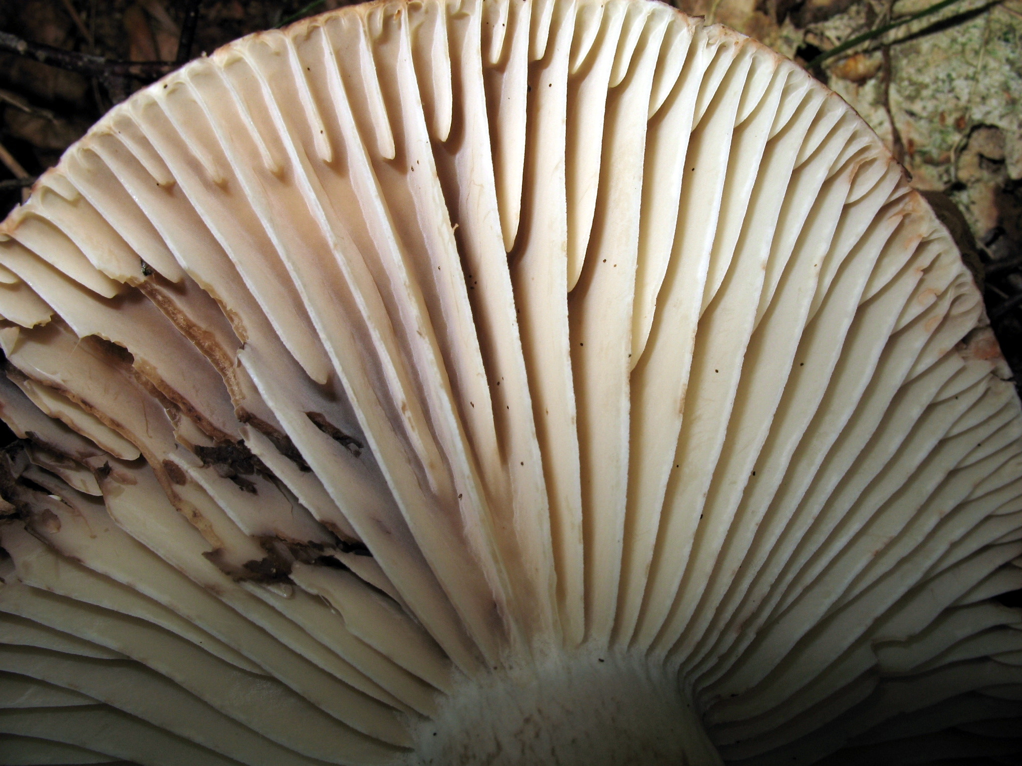 Lamellulae of Russula nigricans